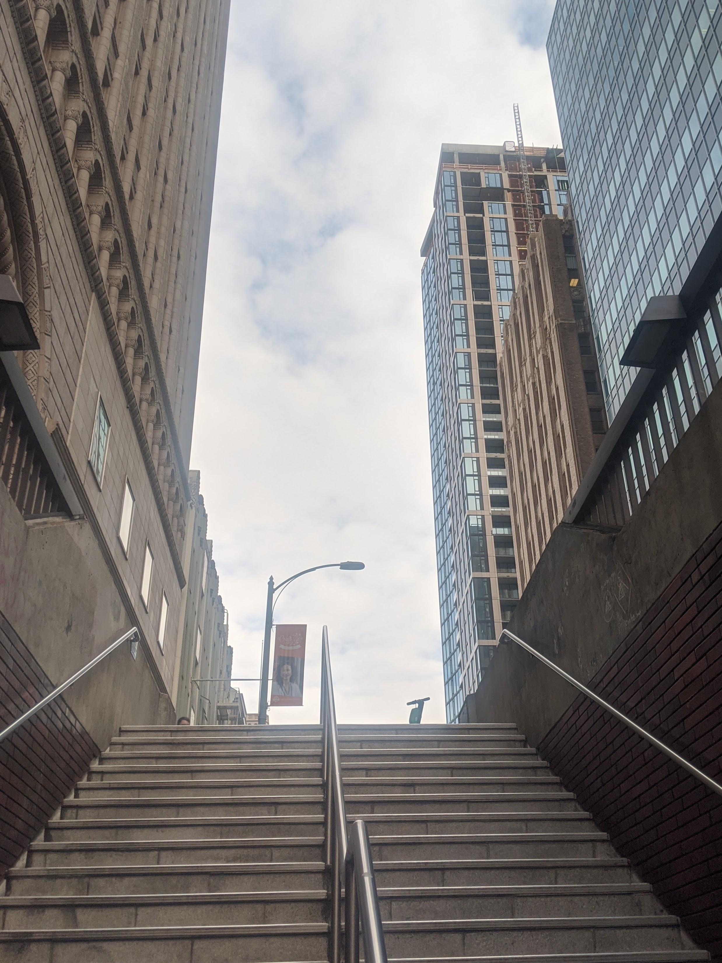 Exit from 12th Street station to the northeast corner of 14th Street and Broadway in January 2020